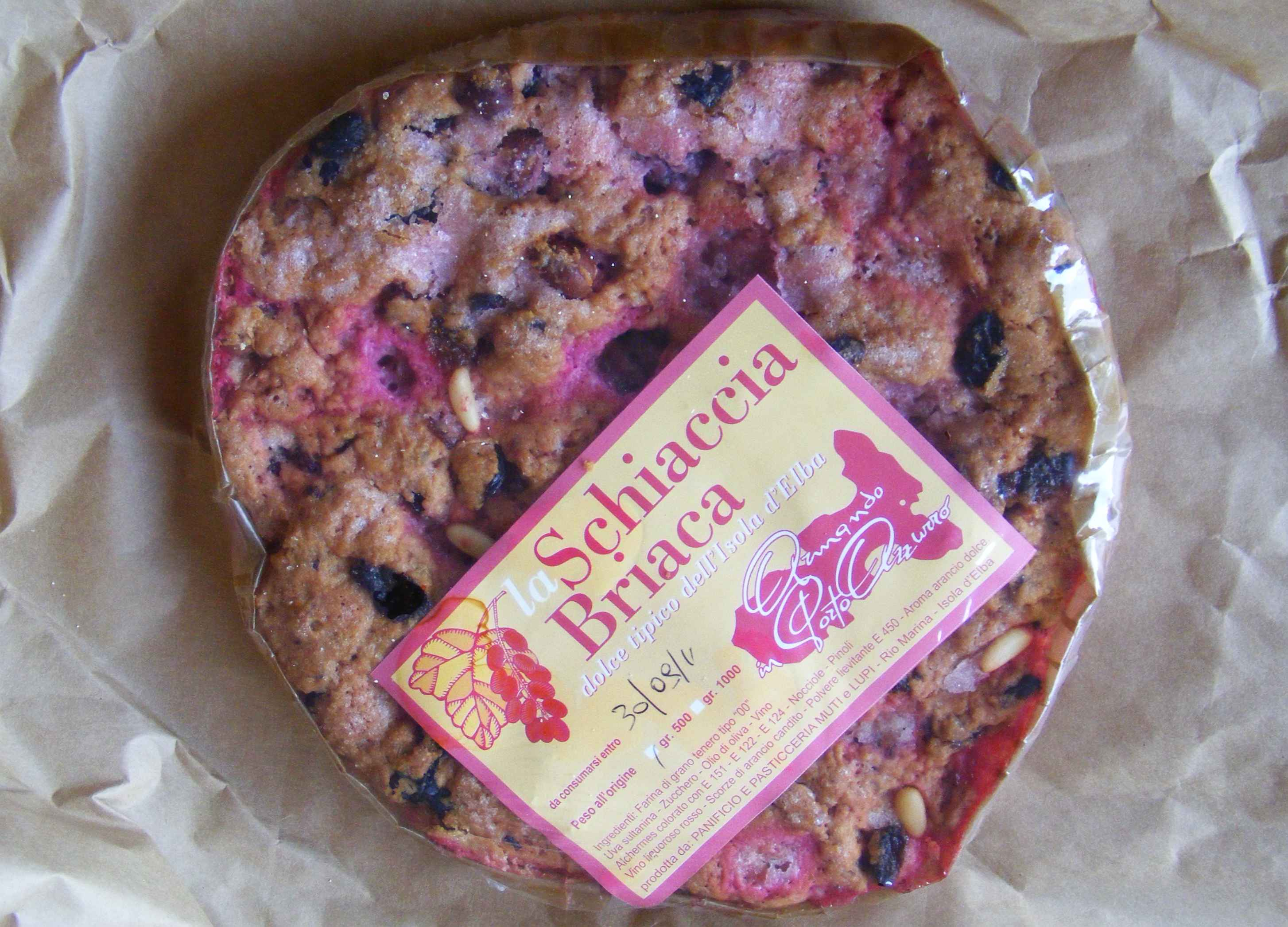 Schiaccia briaca pie packed (Elba Island (LI, Italy)